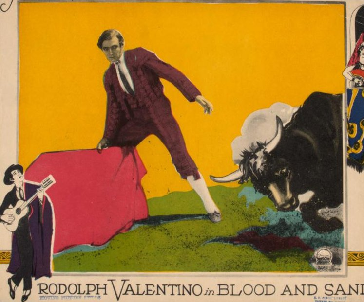 Color poster for the movie Blood and Sand, starring Rudolph Valentino, 1922